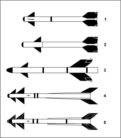 A drawing of Israeli Shafrir and Python air-to-air missile family. Shafrir 1 Shafrir 2 Python 3 Python 4 Python 5